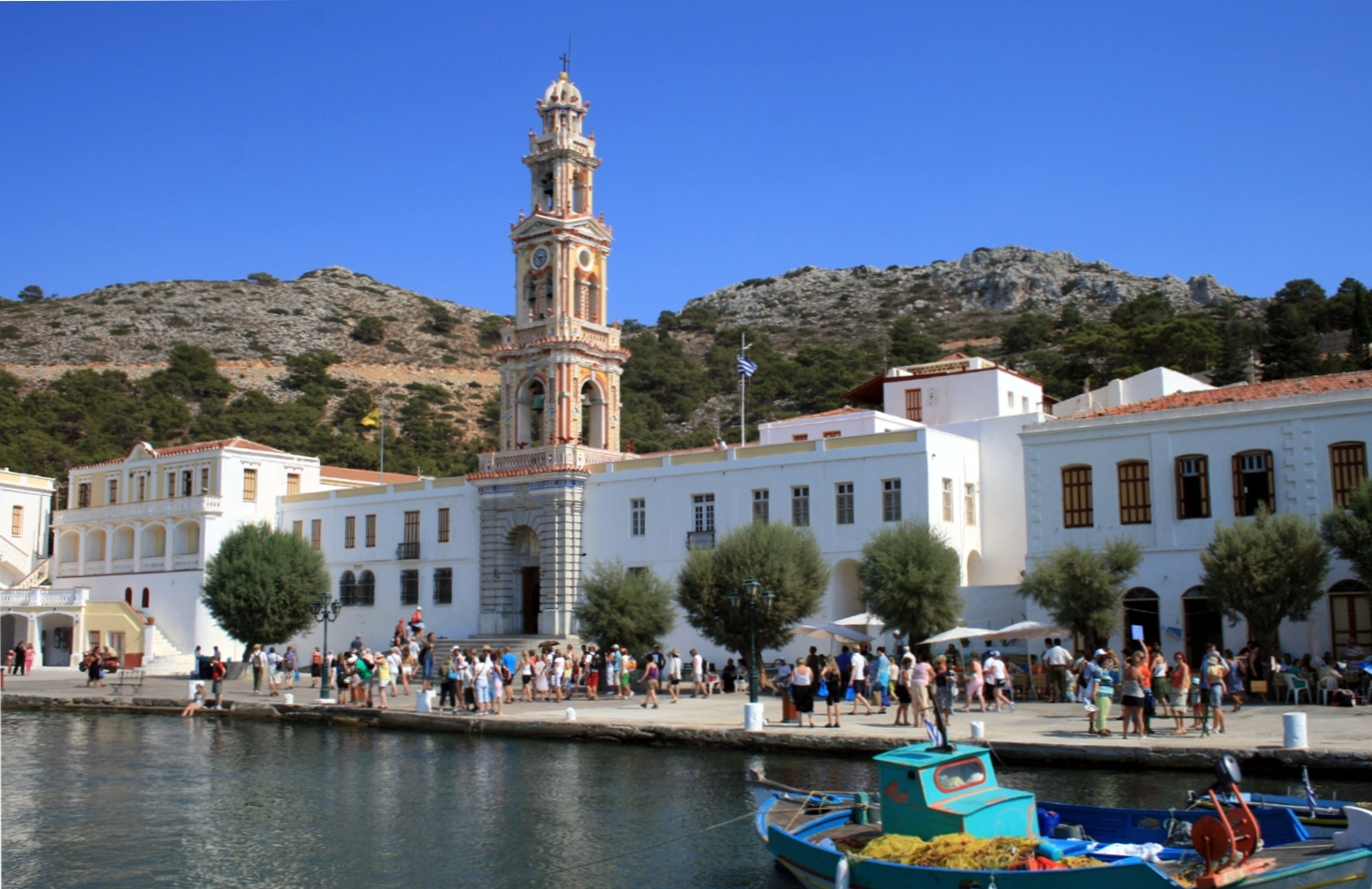 Monastery Panormitis on Simi island, Greece klášter Panormitis na ostrově Simi, Řecko photo August 2007 Author= Karelj